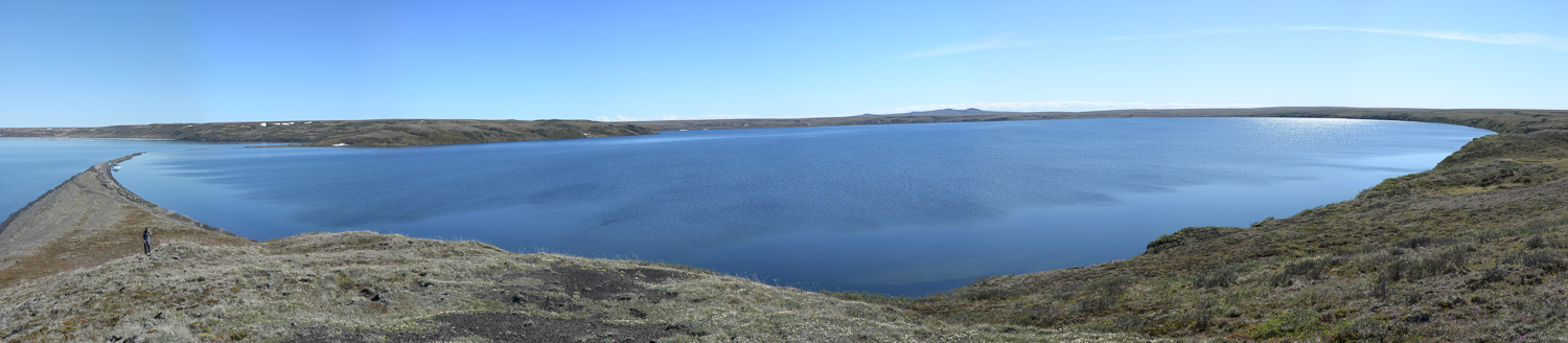 A view of the the southern devil mountain lake from the higher terrain on the south side of the lakes. Accessible only by float plane.